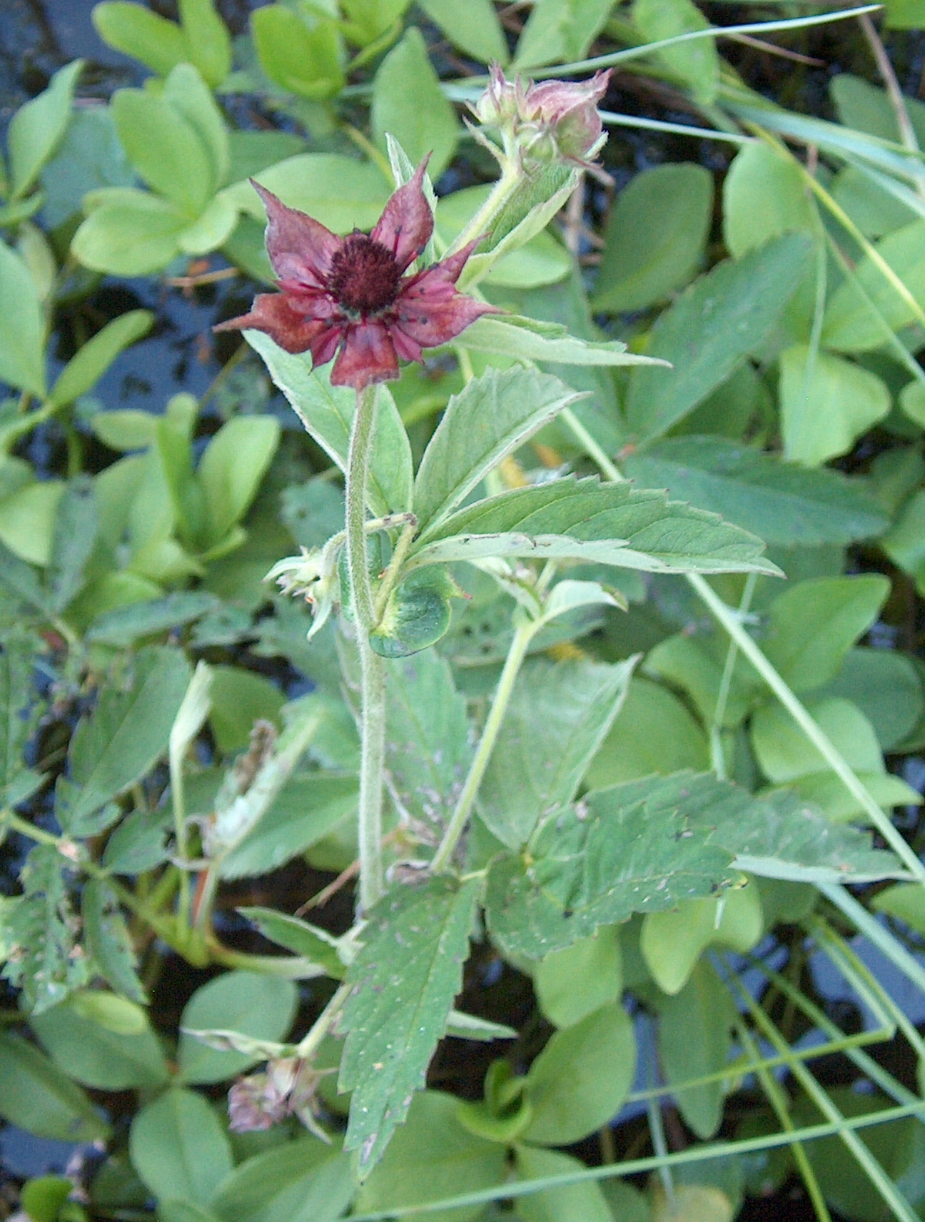 Comarum palustre (syn. Potentilla palustris), Marsh cinquefoil - Kerava, Finland